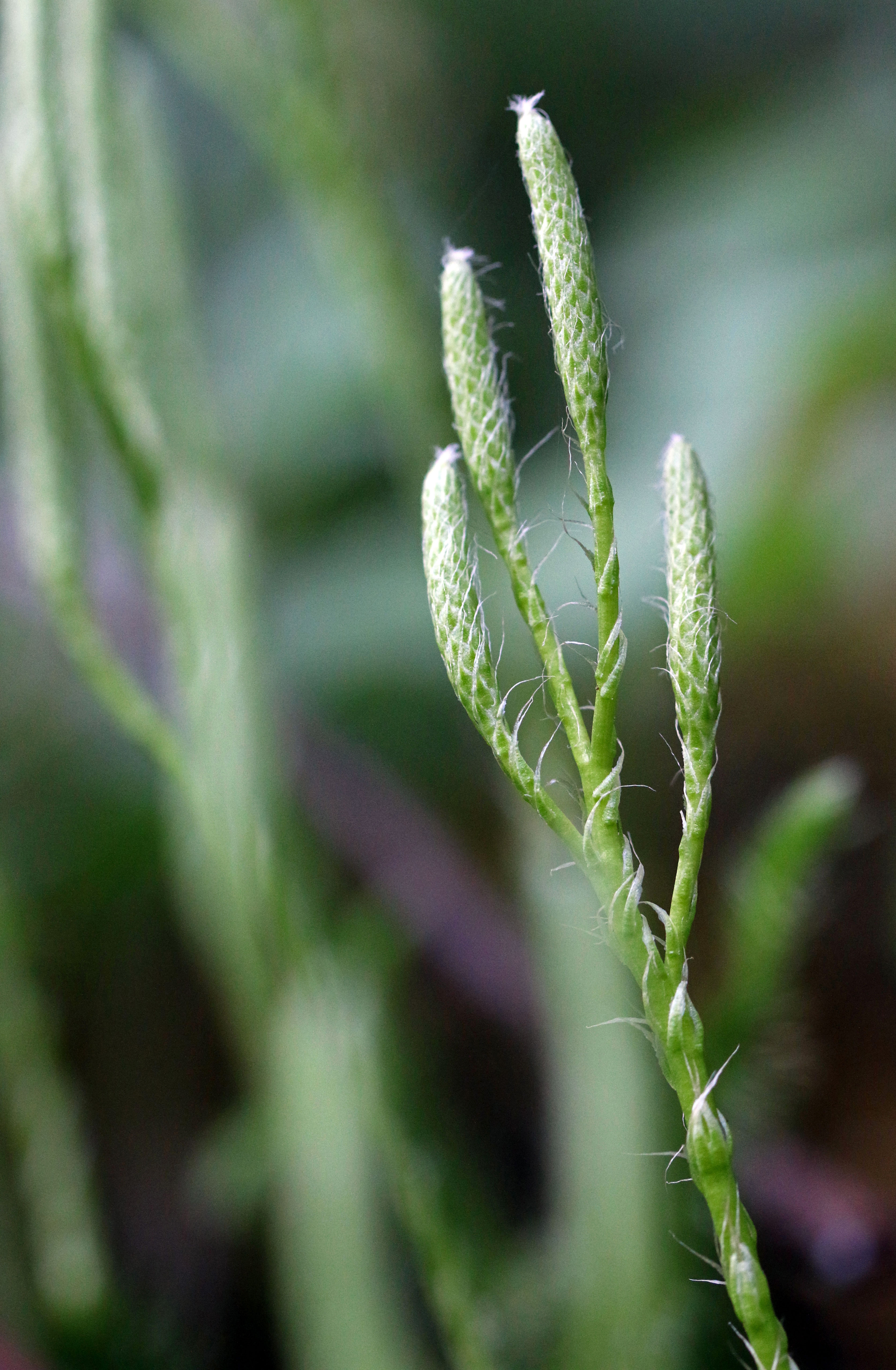 Trailing club-moss (Lycopodium clavatum) You are free to use this image with the following photo credit: Peter Pearsall/U.S. Fish and Wildlife Service